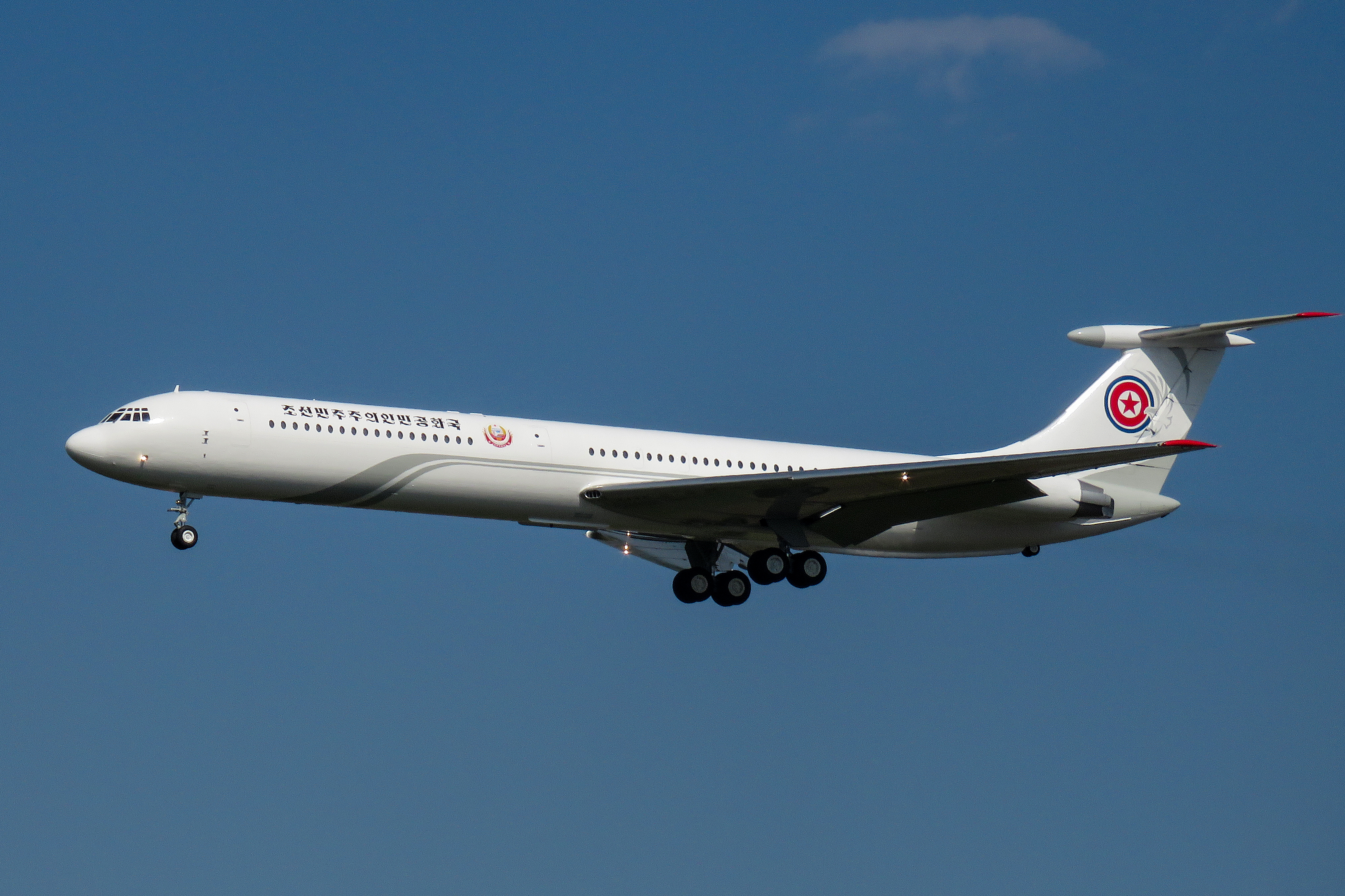 Papa Romeo Kilo Seven Two Seven (PRK727) arriving from Pyongyang to pick Kim Jong-un up. Mr. Kim has just finished his two-day visit to China which received instant report yesterday, merely a week after the Trump-Kim summit. This so-called "Chammae-1", also known as "Kim Force One" or "Air Force Un", has just brought Kim to Beijing on 19 June 2018 and returned to North Korea with no pax, contrary to his previous visits which use governmental trains and are reported after the completion of journeys. An Il-62 is better than nothing, but where is its registration? You know, blocking registration numbers would result in a 12-point penalty in driver's license in China.